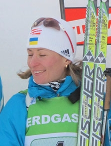 Vita Semerenko on Biathlon World Cup mixed team podium in 2010, Pokljuka